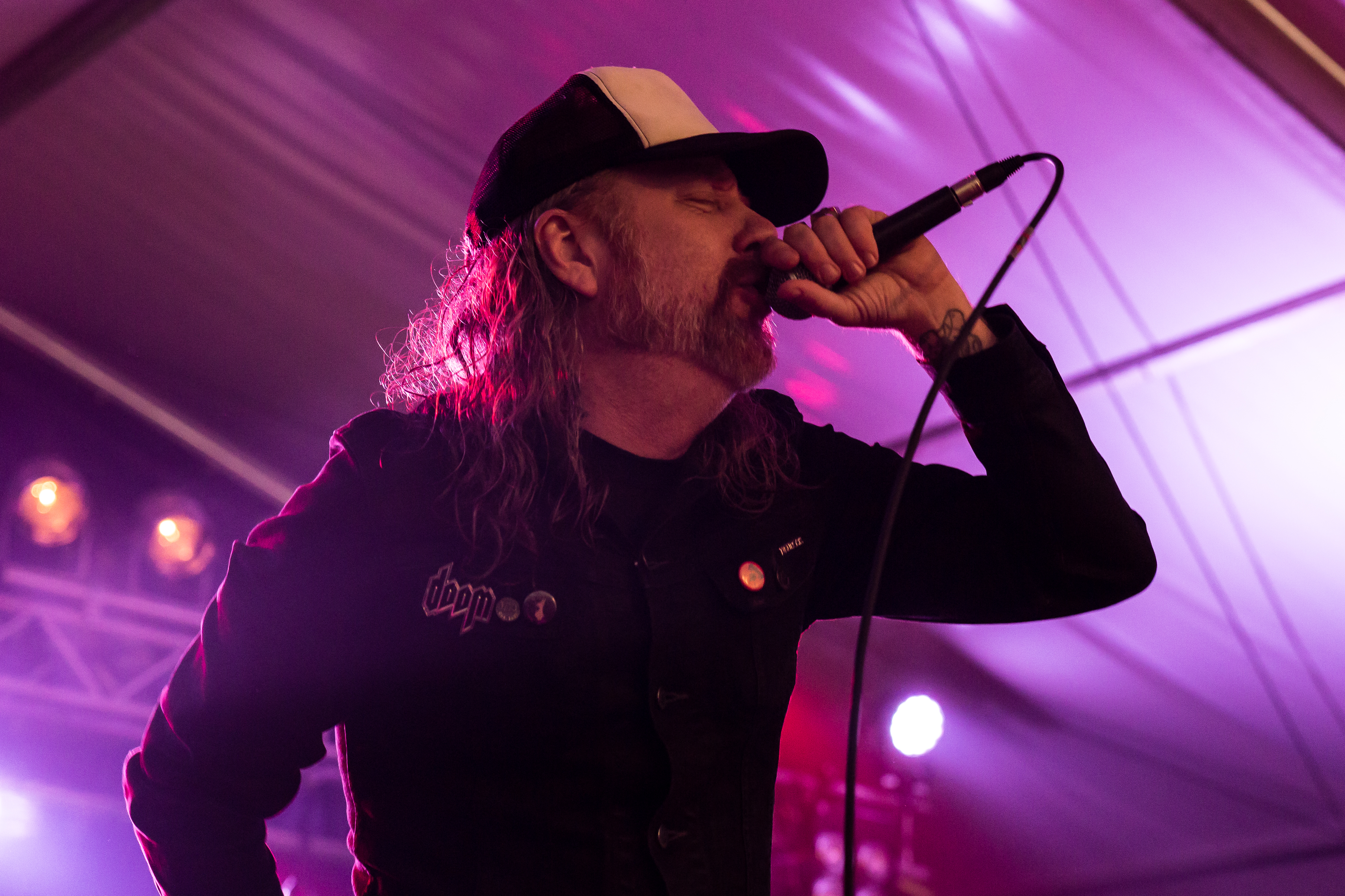 The Swedish death metal band The Lurking Fear at the Party.San Metal Open Air 2016 in Obermehler-Schlotheim/Germany.